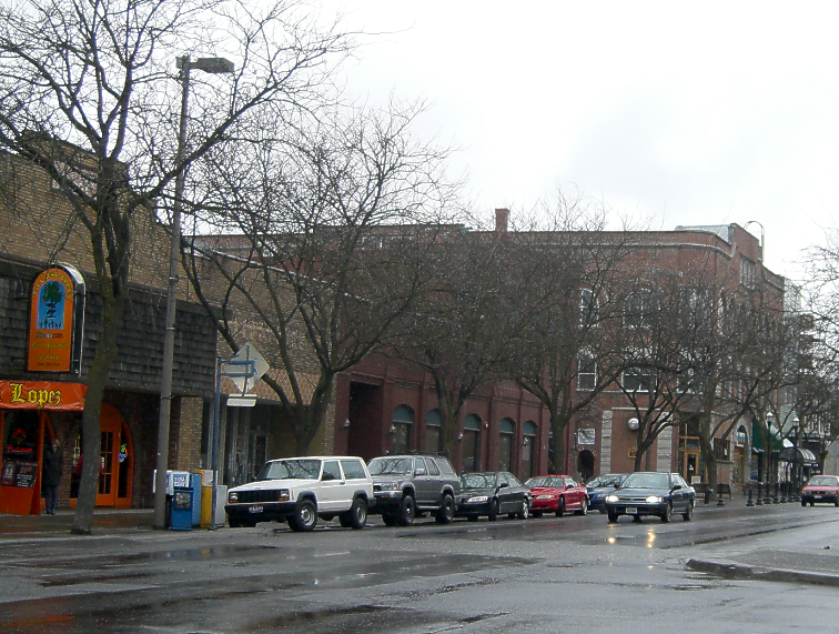 Downtown Moscow, Idaho on a rainy Sunday in March Robbie Giles©